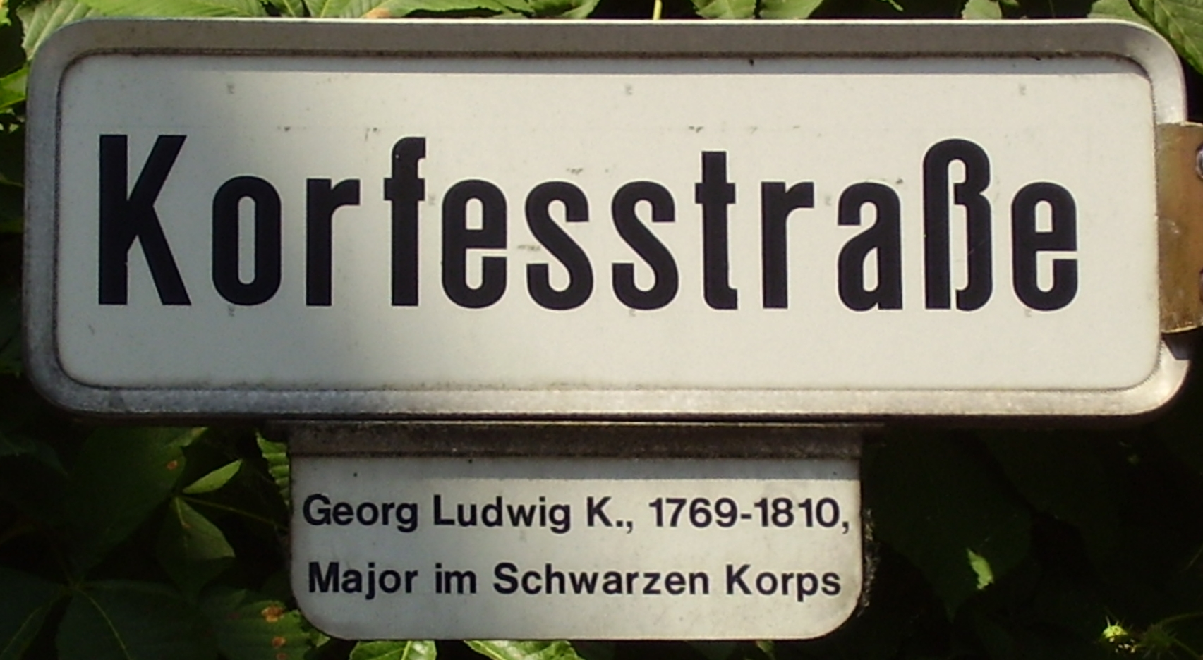 Braunschweig (City) — Korfesstr. — Street sign